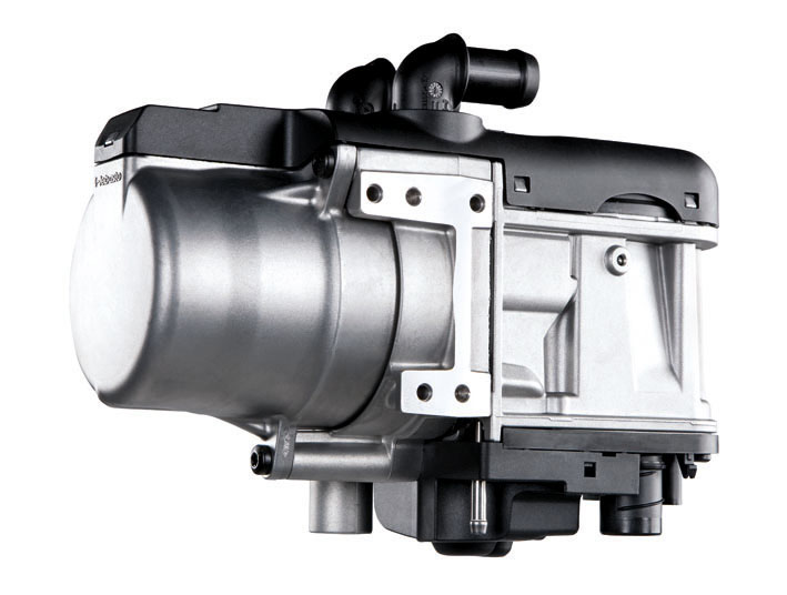 Webasto Thermo Top Evo